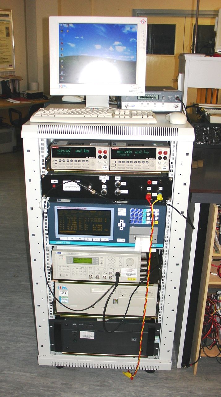 Universal measuring system, for measurements of magnetic properties of soft magnetic materials (from quasi-static to 200 kHz) in Wolfson Centre for Magnetics.